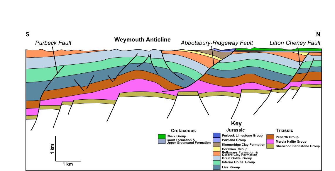 Cross-section through the Weymouth Anticline based on published sections and seismic interpretations by Harvey and Stewart (1998), Butler (1998) and Underhill & Paterson (1998)